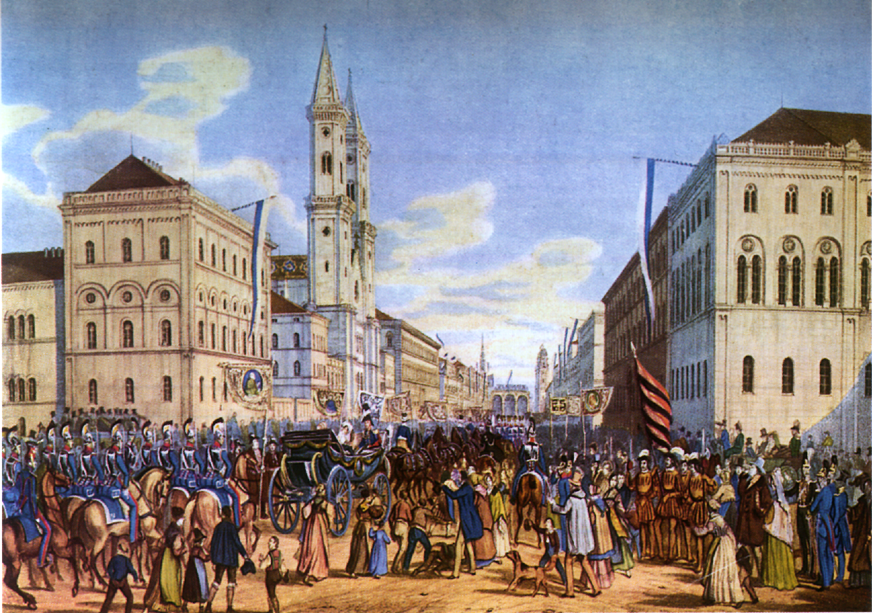 The Ludwigstraße street in München during the arrival of princess Marie of prussia, the wife of the later bavarian king Maximilian II. The three-arch building in the background is the "Feldherrnhalle".